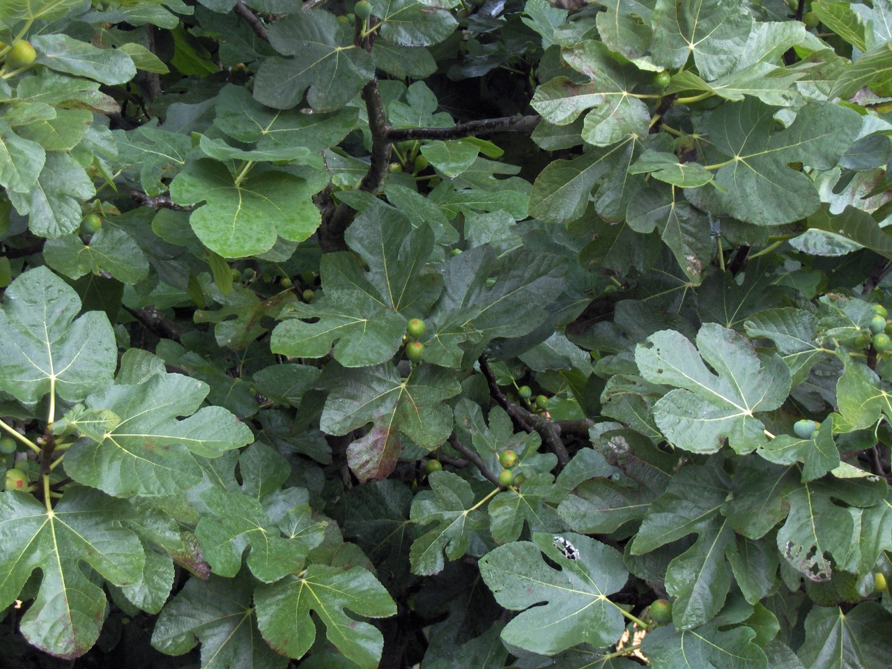 Ficus carica (Fig)with budding fruits; photo made at the Atlantic coast of Spain.